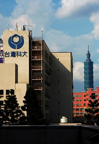 NTUST in 2006